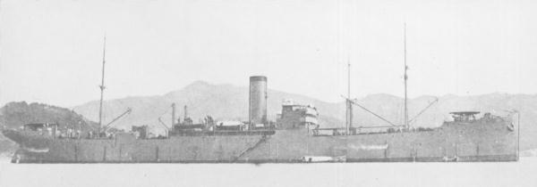 Japanese supply ship MAMIYA at Kure Naval Base.